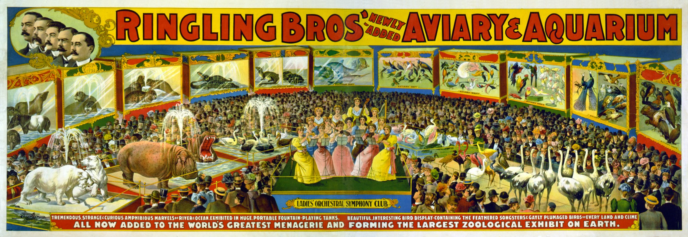 Ringling Brothers circus poster - "aviary and aquarium ... largest zoological exhibit on earth"